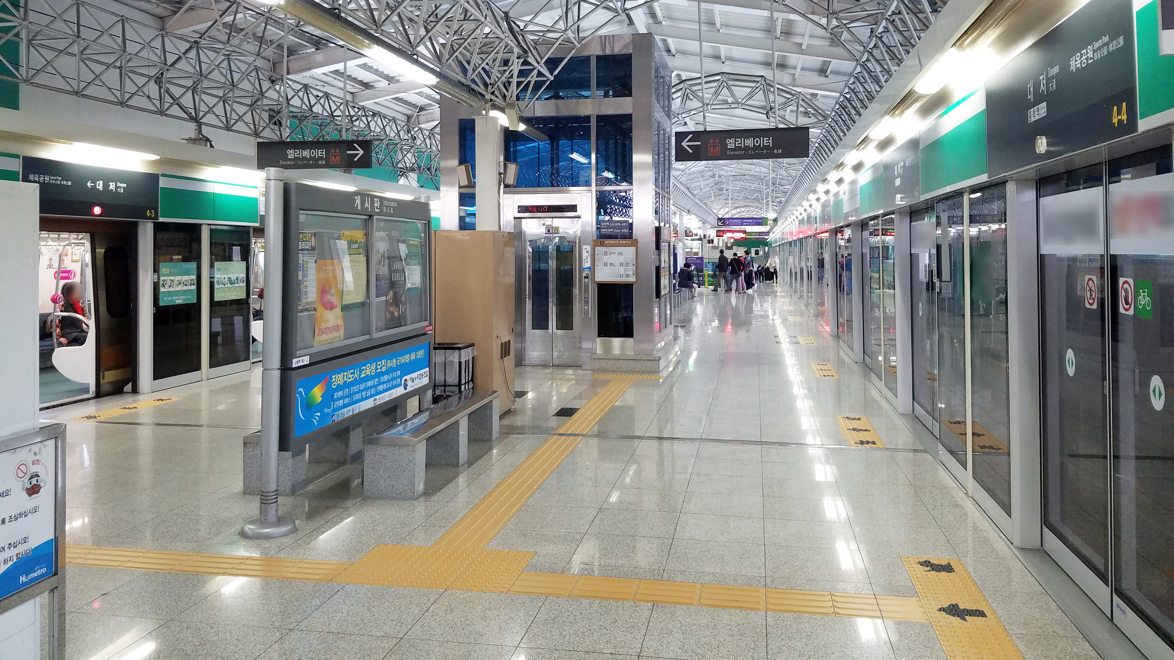 The platform at Daejeo Station on the Busan Subway Line 3 in Gangseo-gu, Busan, Republic of Korea(South Korea)